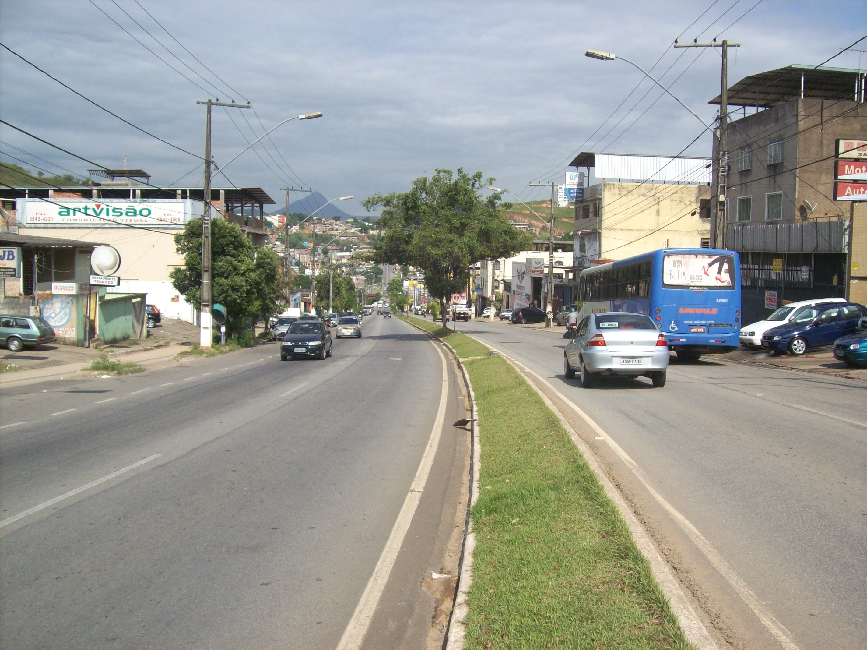 Presidente Tancredo de Almeida Neves avenue in the Bom Jesus neighborhood, in Coronel Fabriciano, Minas Gerais, Brazil.